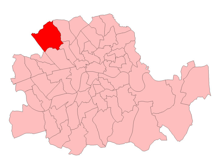 A map of Hampstead constituency within the London County Council area, as it existed from 1918 to 1949.